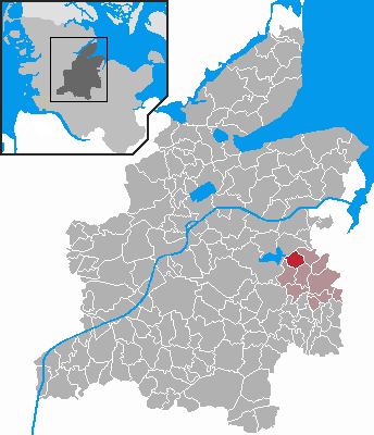 Locator maps of municipalities in Schleswig-Holstein - District Rendsburg-Eckernförde